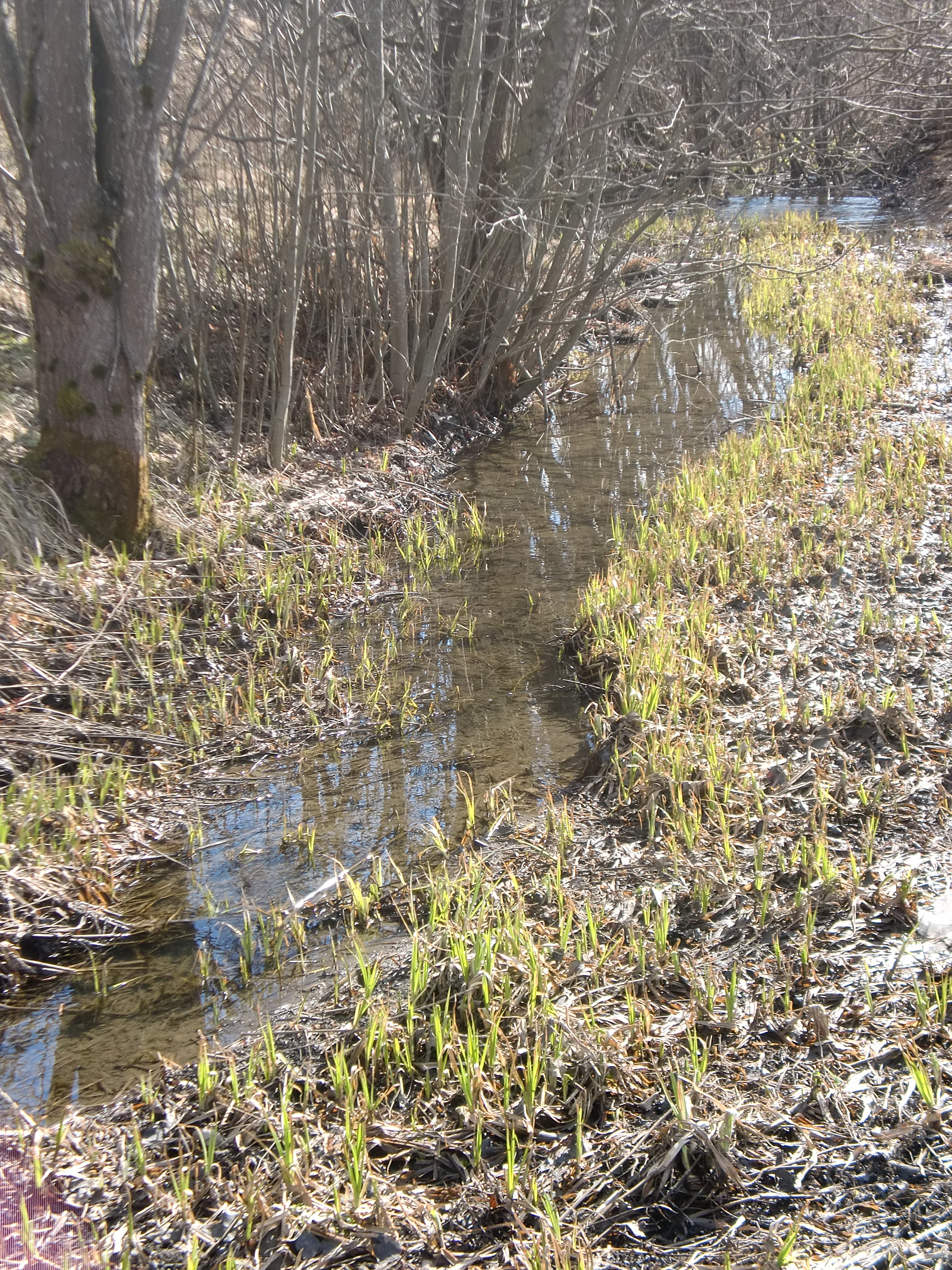 A portion of the creek Hoslebekken during early spring.